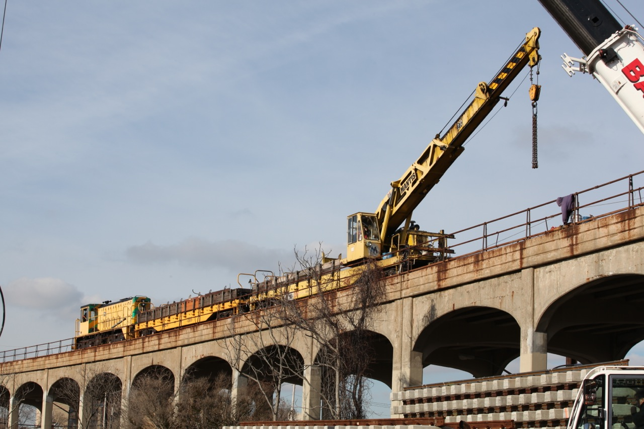 Panel crane in position to install panel at Beach 60th St. Photo: MTA New York City Transit / Leonard Wiggins